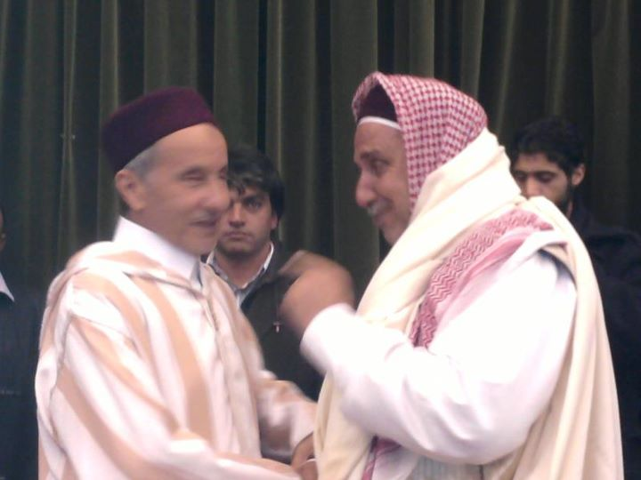 Reception Mustafa Abdul Jalil National Interim President of the Council of the Egyptian delegation, Bayda - Libya on 12/10/2011.